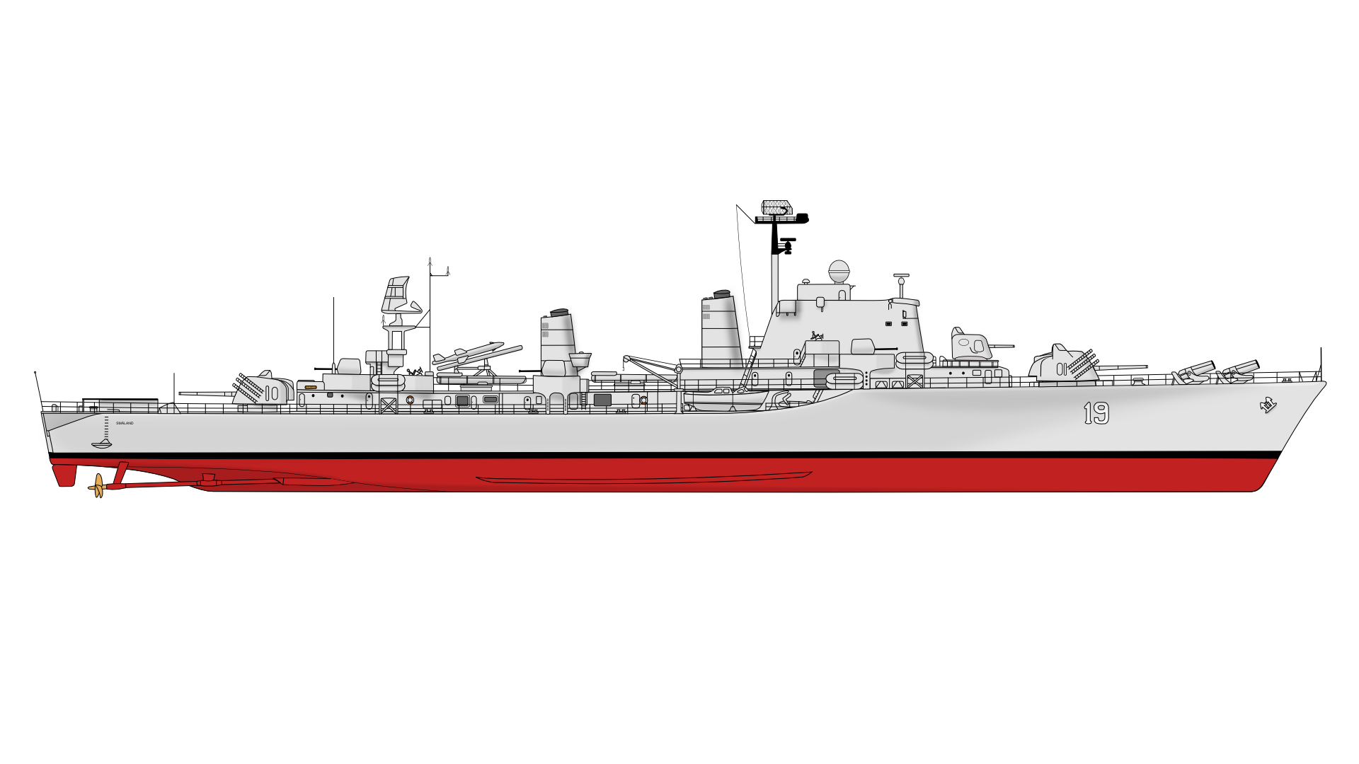 Swedish Destroyer HMS Småland.